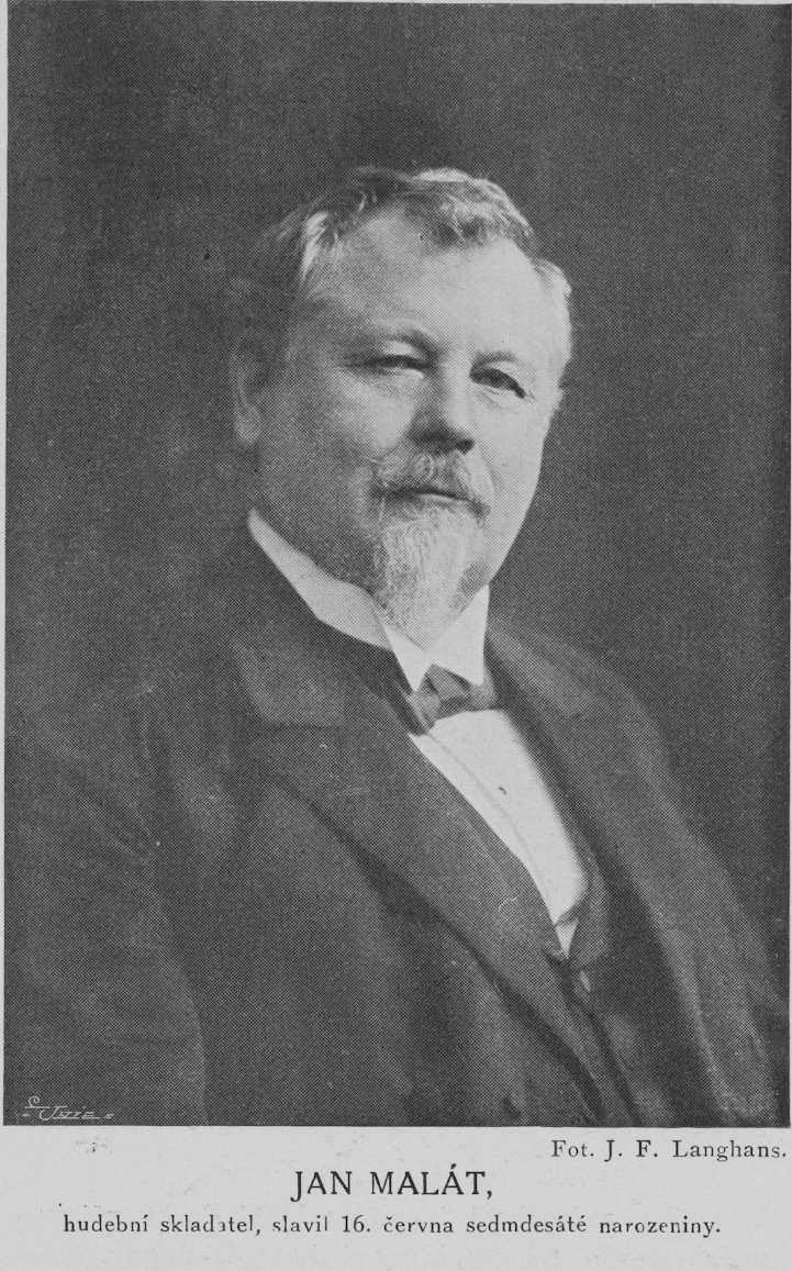 Portrait of Jan Malát (1843–1915), a Czech composer.